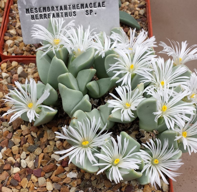 Conophytum herreanthus